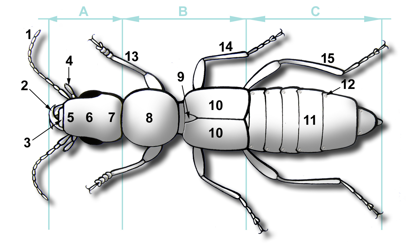 Description of coleoptera Legend